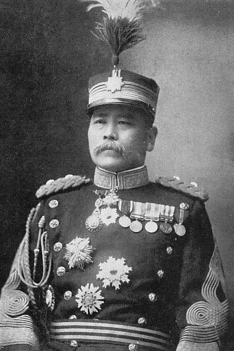 Seiichi Nishimura